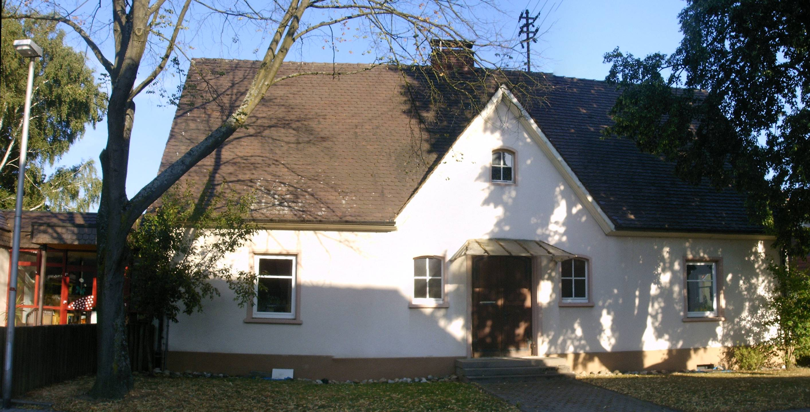 Kindergarten (old building) of Ottersdorf, part of Rastatt, Germany (panoramic picture)